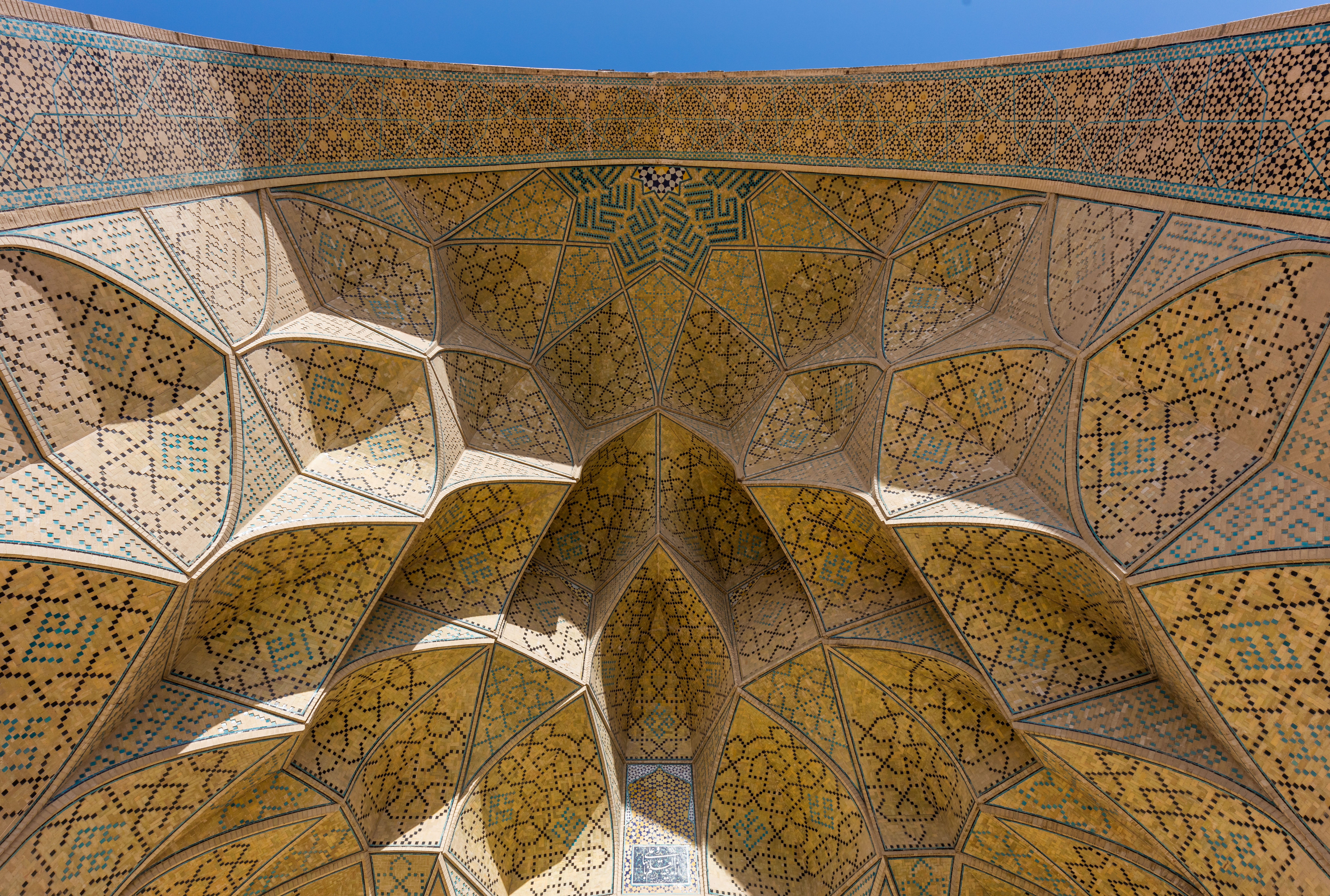 Bottom view of an iwan in the Jameh Mosque of Isfahan, Isfahan, Iran. The mosque, an UNESCO World Heritage site, is one of the oldest still standing buildings in Iran and it has been continuously changed its architecture since it was erected in 771 until the 20th century.